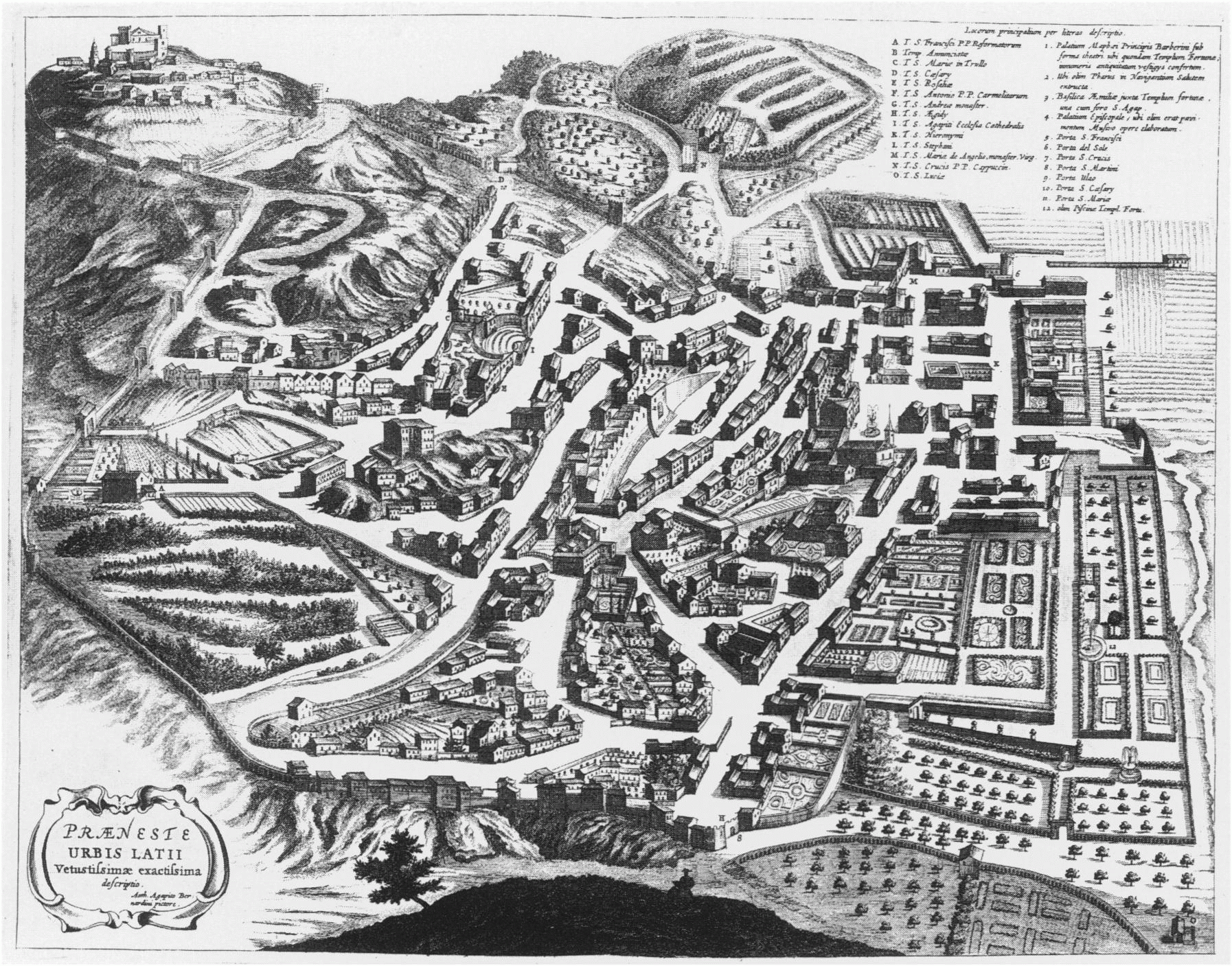 Praeneste Urbis Latii Vetustissimae exactissima descriptio: copperplate engraving (43 x 33 cm) by Agapito Bernardini showing the town Palestrina as it appeared around 1670